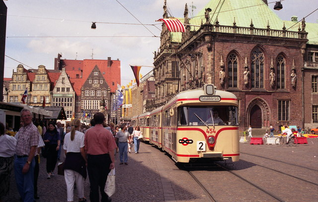 Tram on Route 2 near Bremen Rathaus